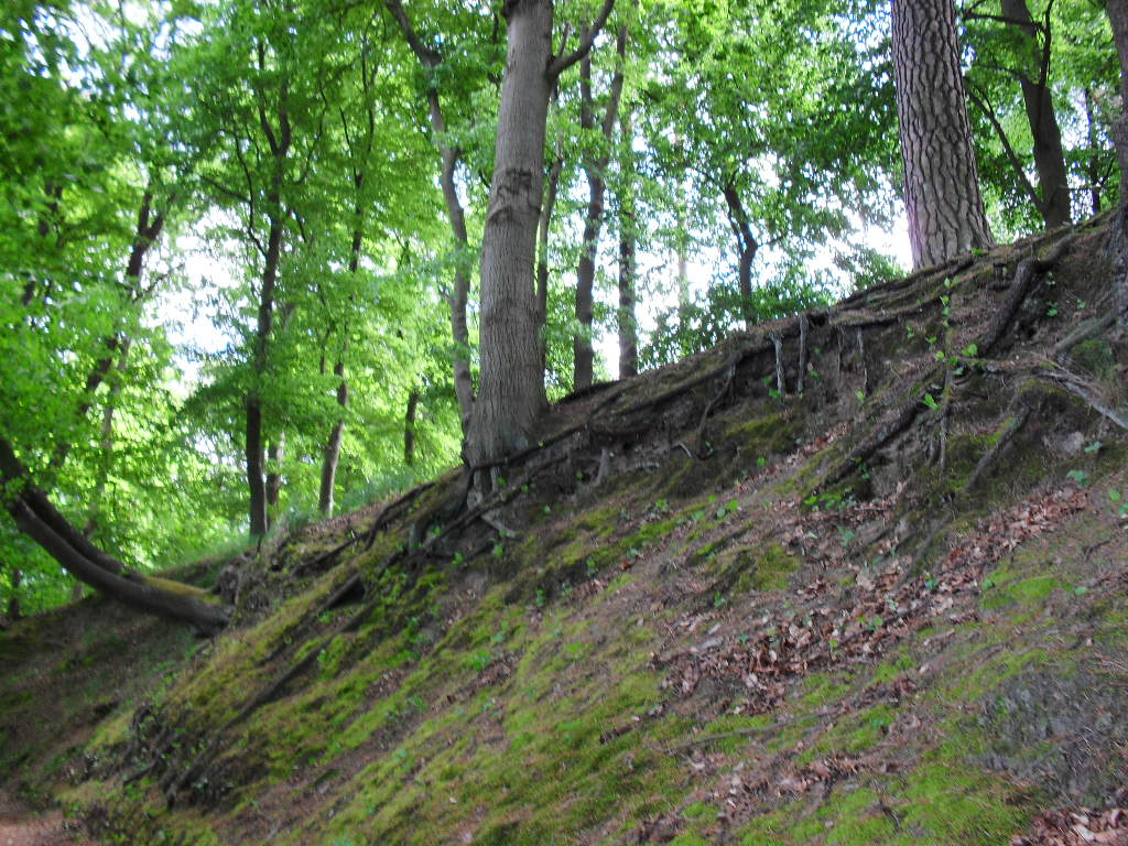 at the shore of lake Zenssee in Lychen, Brandenburg, Germany (near "Sängerslust")